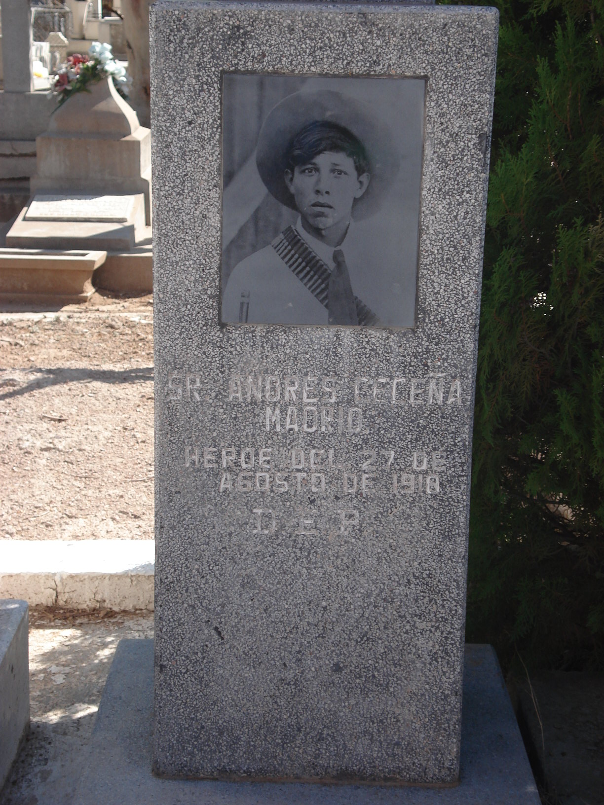 The tomb of Andres Cecena, a Mexican customs official killed during the Aug. 27, 1918, Battle of Ambos Nogales. The tomb is located in Heroica Nogales, Sonora's Panteon de los Heroes.